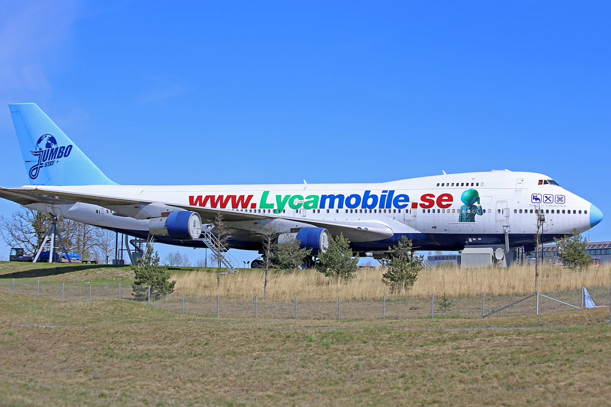 Jumbo Stay Boeing 747-200